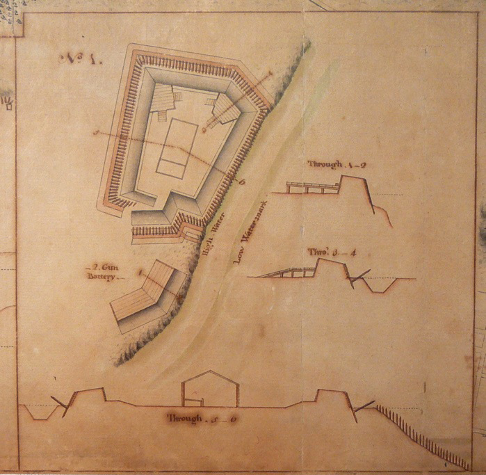 Lewis Nicola, Plan of the English Lines Near Philadelphia 1777 (Detail showing Redoubt No. 1). Collection: Historical Society of Pennsylvania, call # Of 932* 1778 p.3 (from Am. 602).